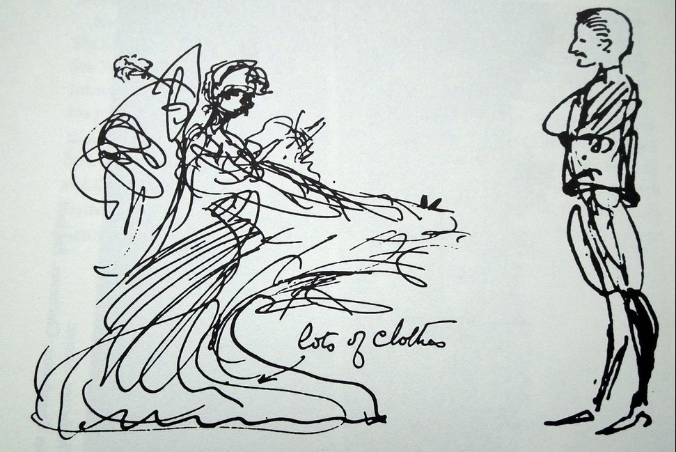 William Dodge James and Mrs Willie James. Sketch by architect Edwin Lutyens of his clients